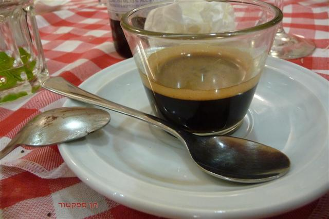 Cup of coffee with teaspoons on a checkered tablecloth